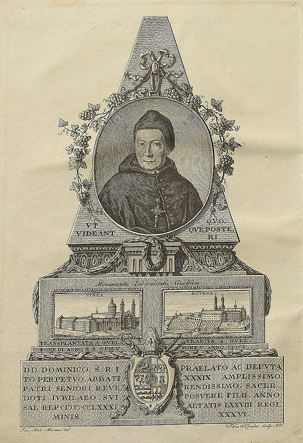 Portrait of Abbot Dominikus Schnitzer OSB; views of Kloster Weingarten (Germany); frontispiece of Prodromus Monumentorum Guelficorum Seu Catalogus Abbatum Imperialis Monasterii Weingartensis, Augsburg 1781 (see Google Books